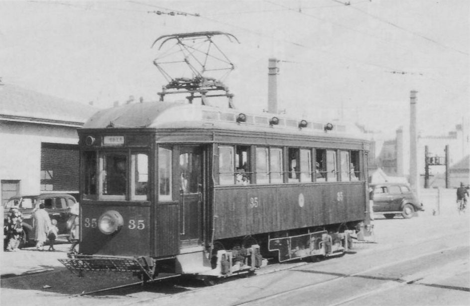 Keio Corporation tramcar number 35